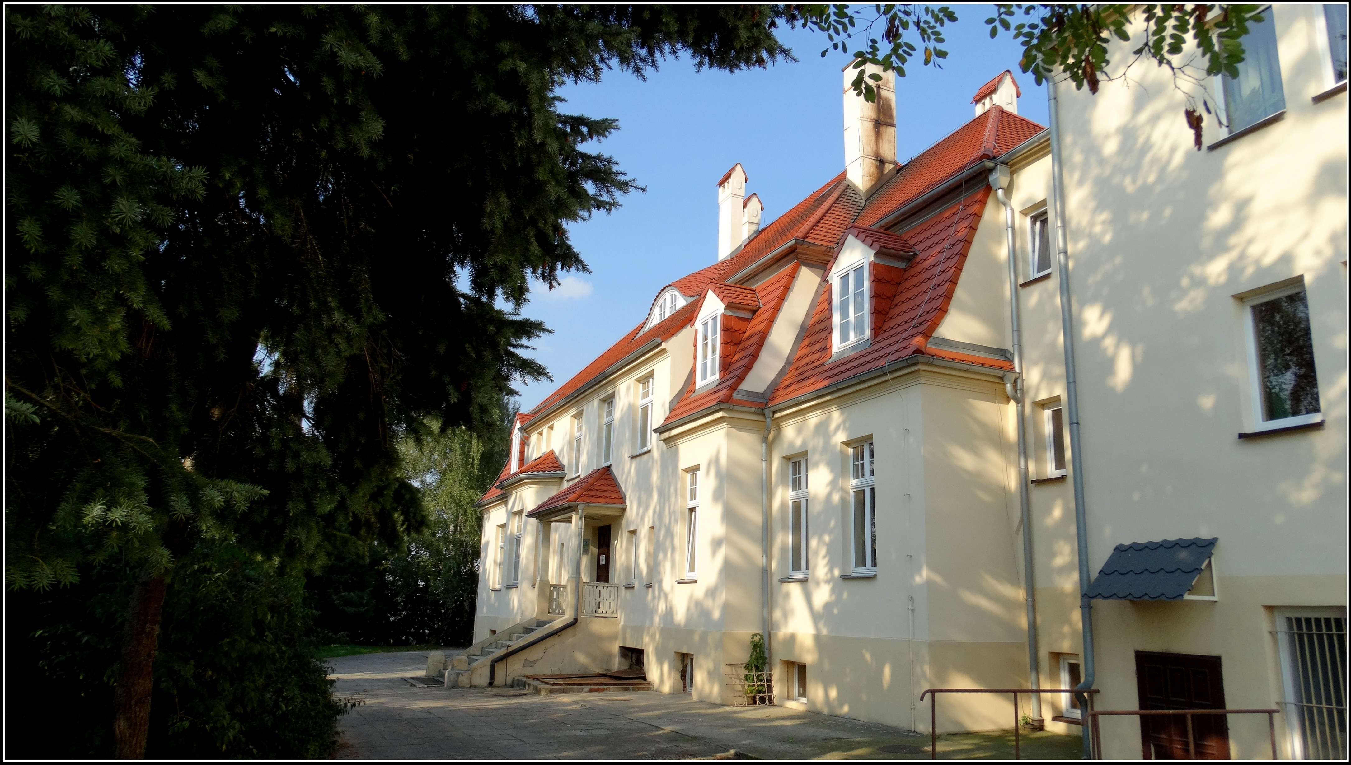 Stare Bojanowo, the palace of the late nineteenth / twentieth century., West elevation. / Gm. Śmigiel / pow. kościański